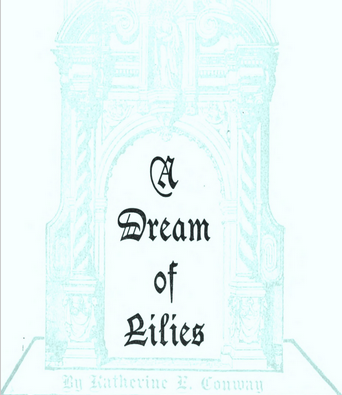 A Dream of Lilies (1893), By Katherine Eleanor Conway